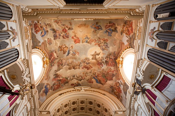 Spain, Madrid, province, Madrid, Monasterio de Descalzas Reales, monastery of Descalzas Reales, interior of the church; © Paul M.R. Maeyaert; reference , PM_80932_E_Madrid.jpg